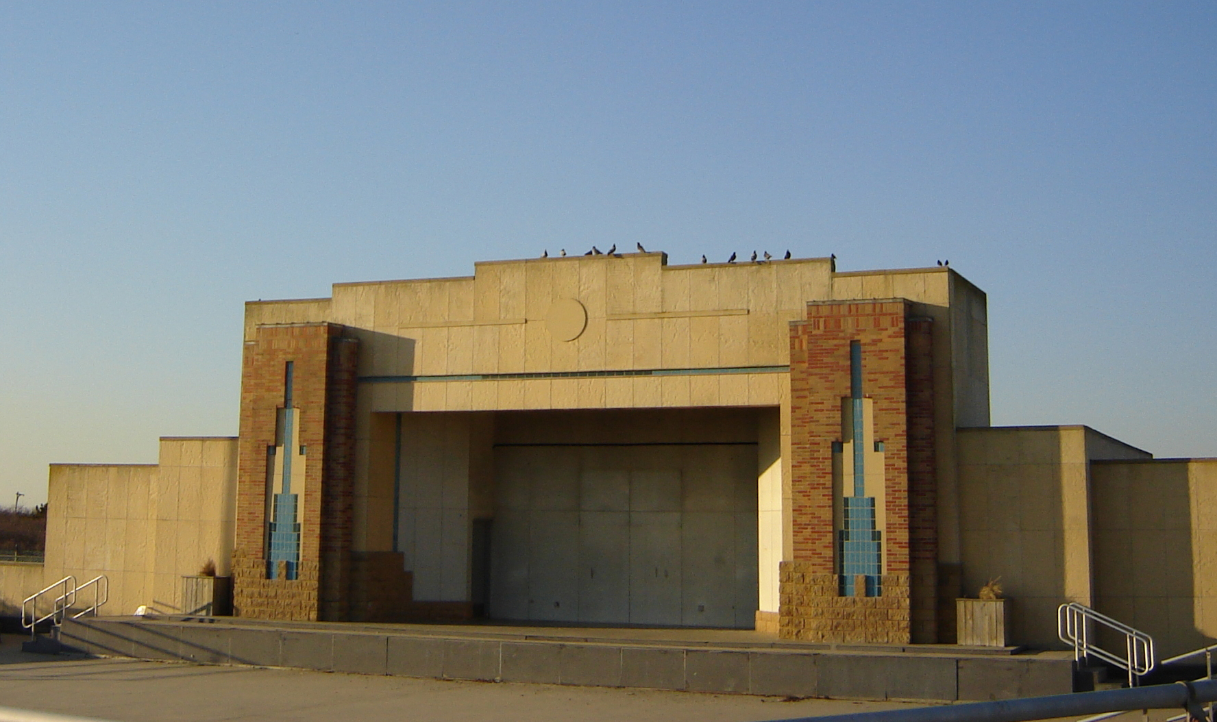 Jones Beach Boardwalk Bandshell located adjacent to the Central Mall.